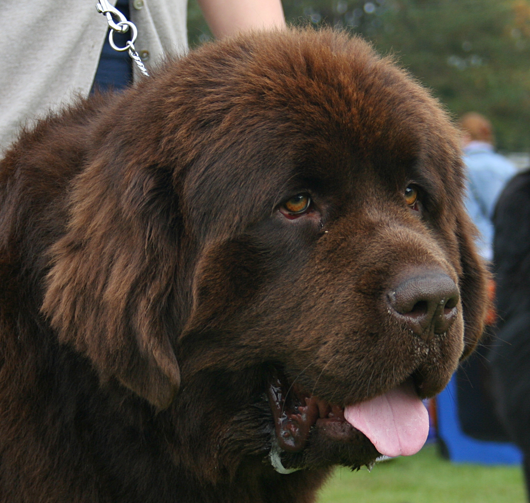 Newfoundland during Dogs Show in Rybnik.